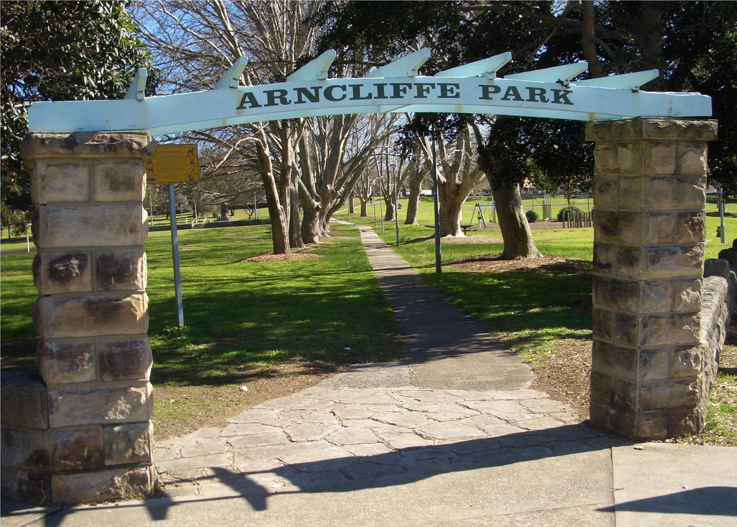 Arncliffe Park, Wollongong Road, Sydney, Australia.